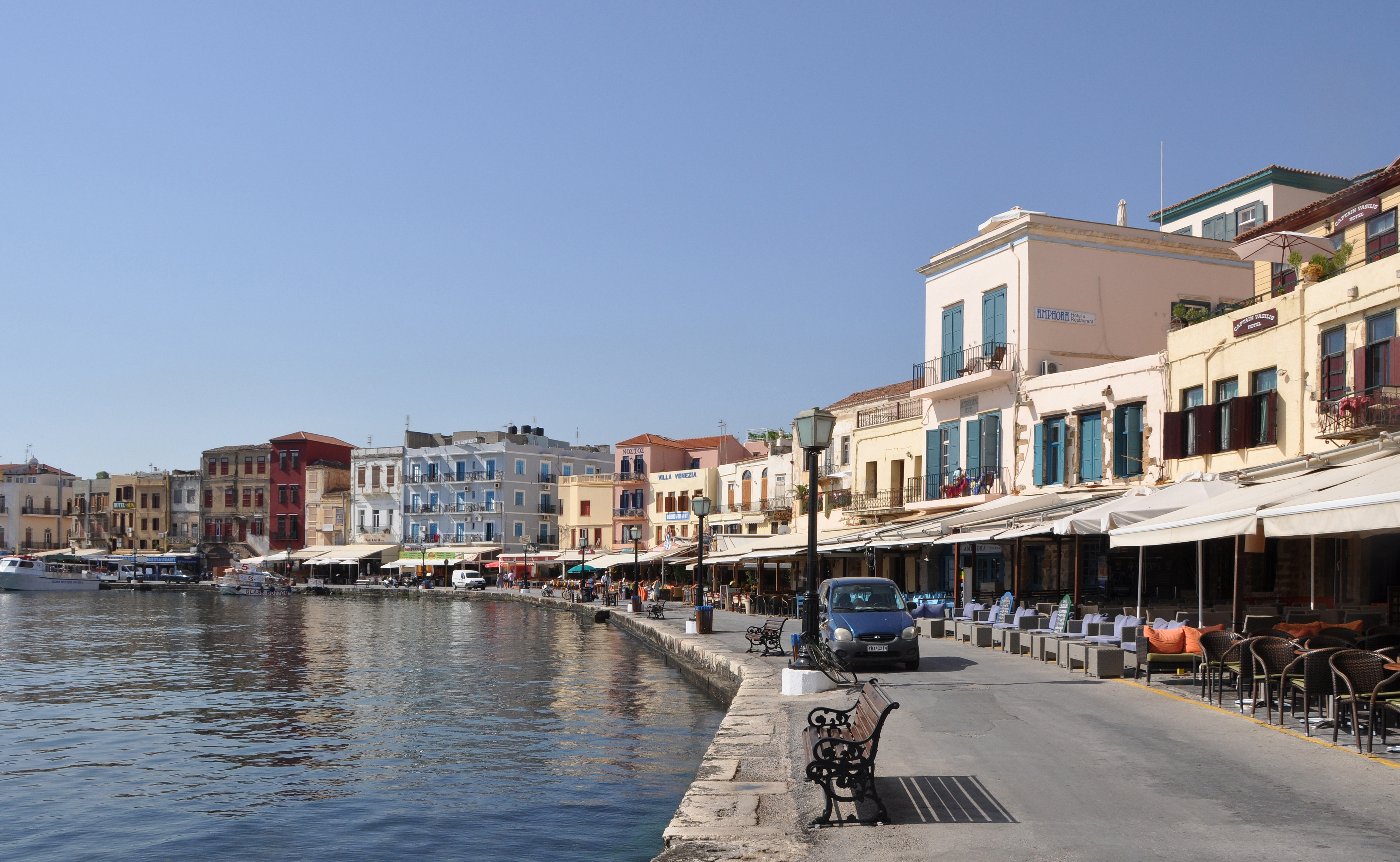 Chania (Crete, Greece): the old harbour